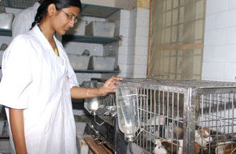 A student of biotechnology at laboratory